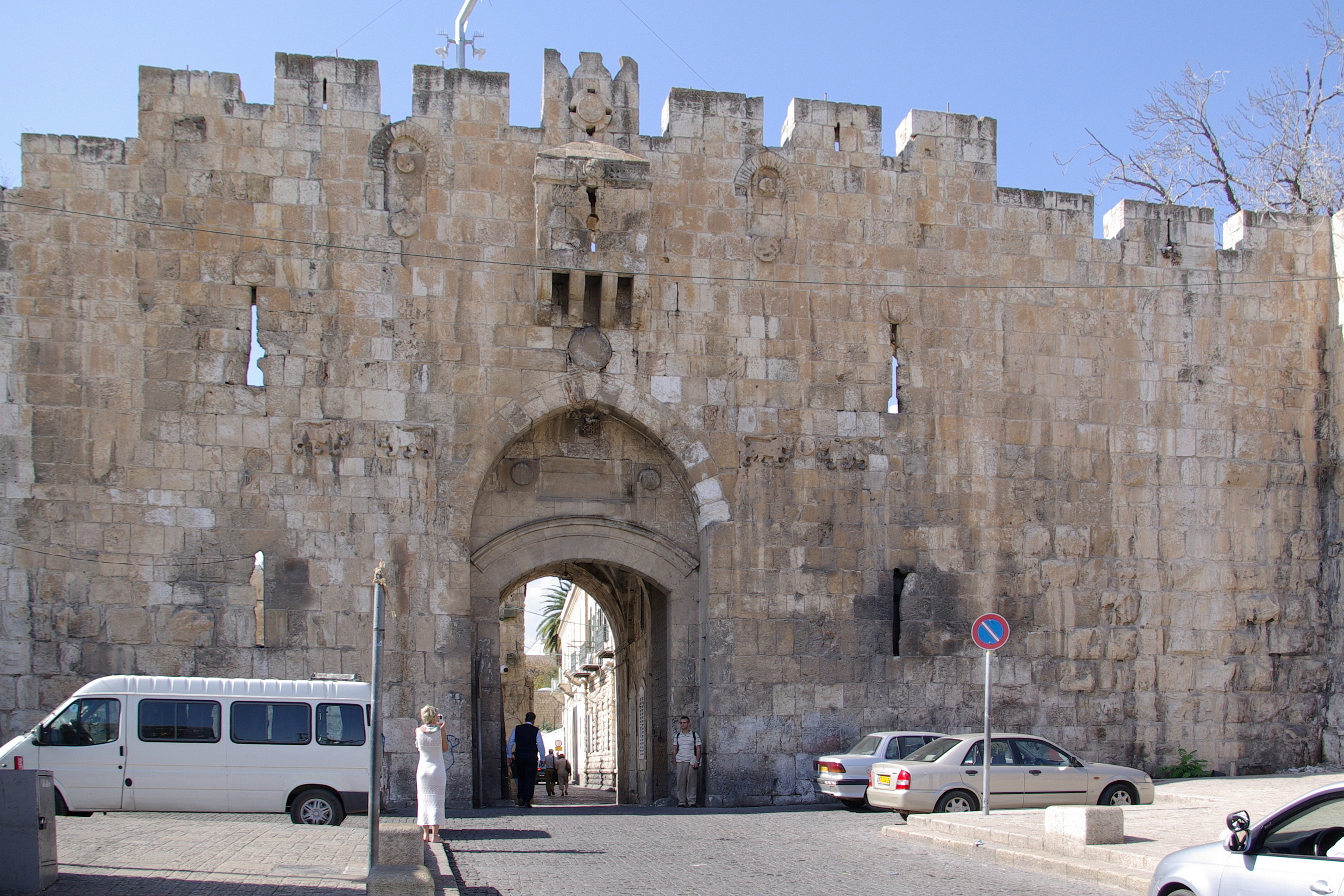 Jerusalem, Lions gate